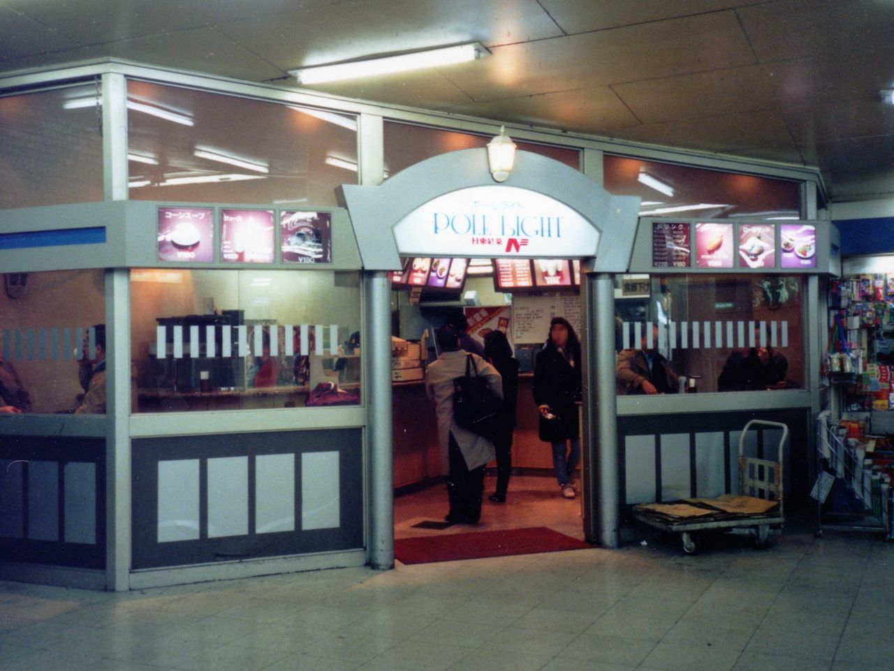 Having tea stand in Odakyu Shinjuku Station premises before "POLE LIGHT". Nitto tea operating directly.